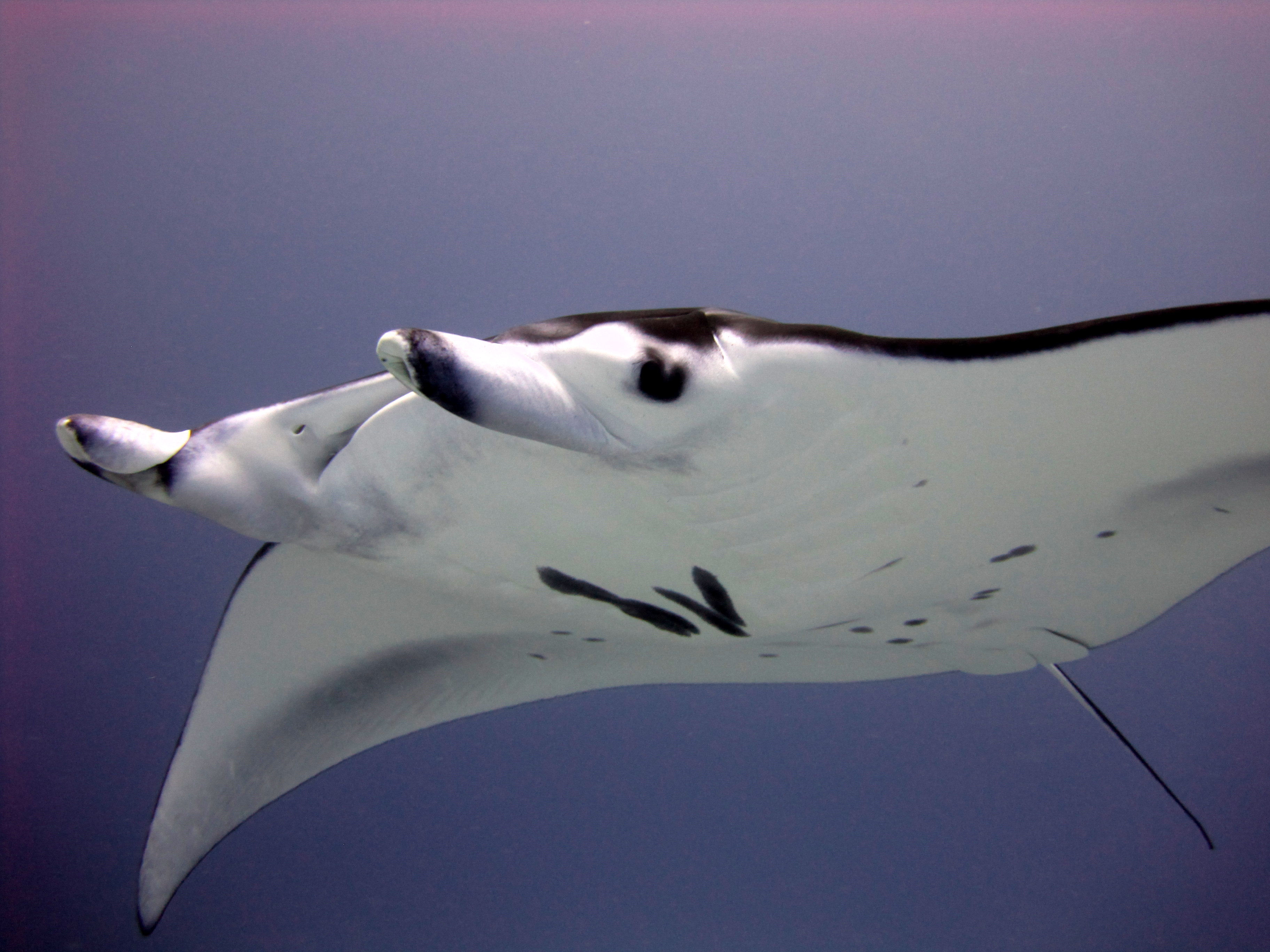 Manta ray (Manta birostris) Image ID: corl0112, NOAA's Coral Kingdom Collection Location: Pacific Remote Islands, Baker Island Photo Date: 2012 Photographer: Kevin Lino NOAA/NMFS/PIFSC/ESD